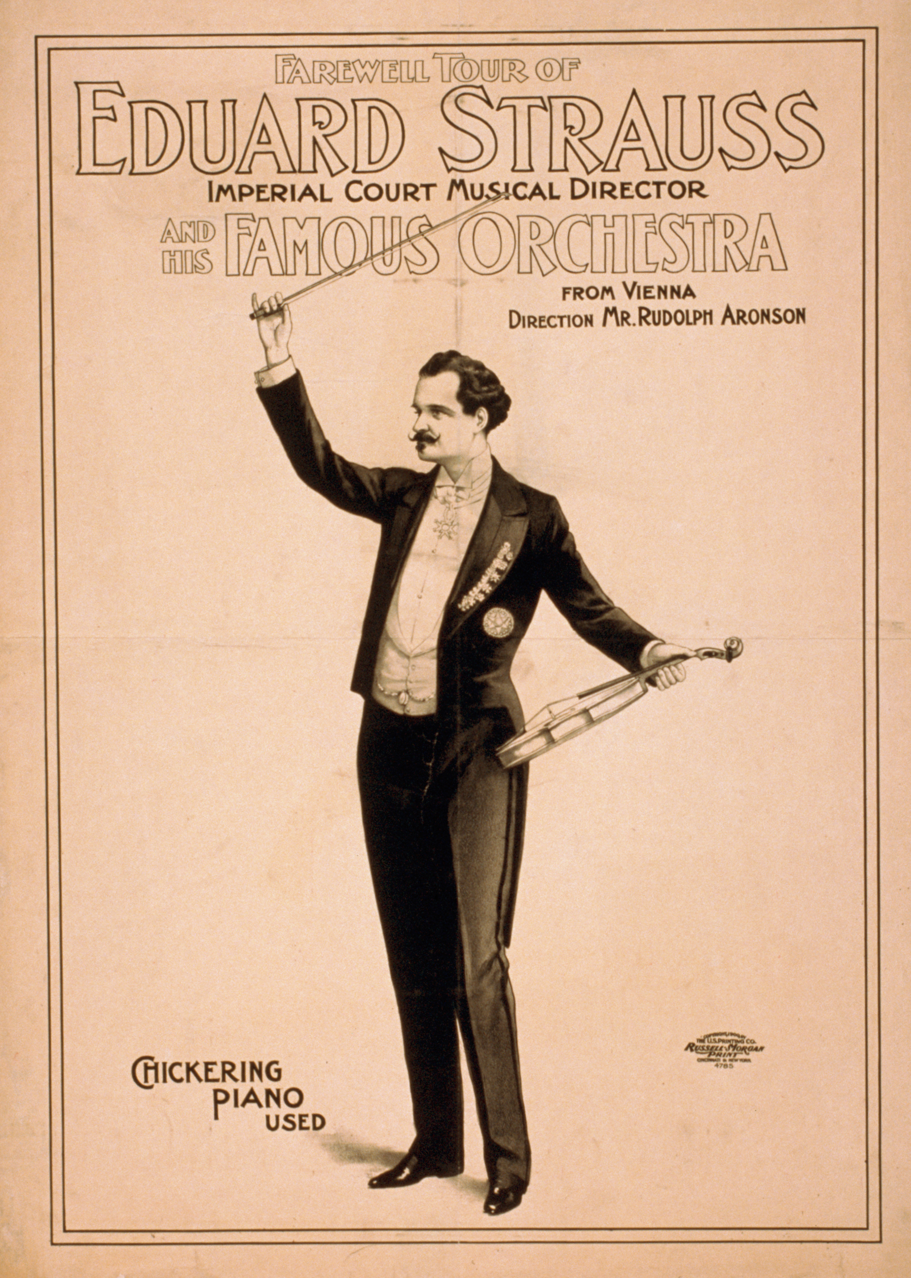 Farewell tour of Austrian composer Eduard Strauss (1835-1916), Imperial Court musical director and his famous orchestra from Vienna